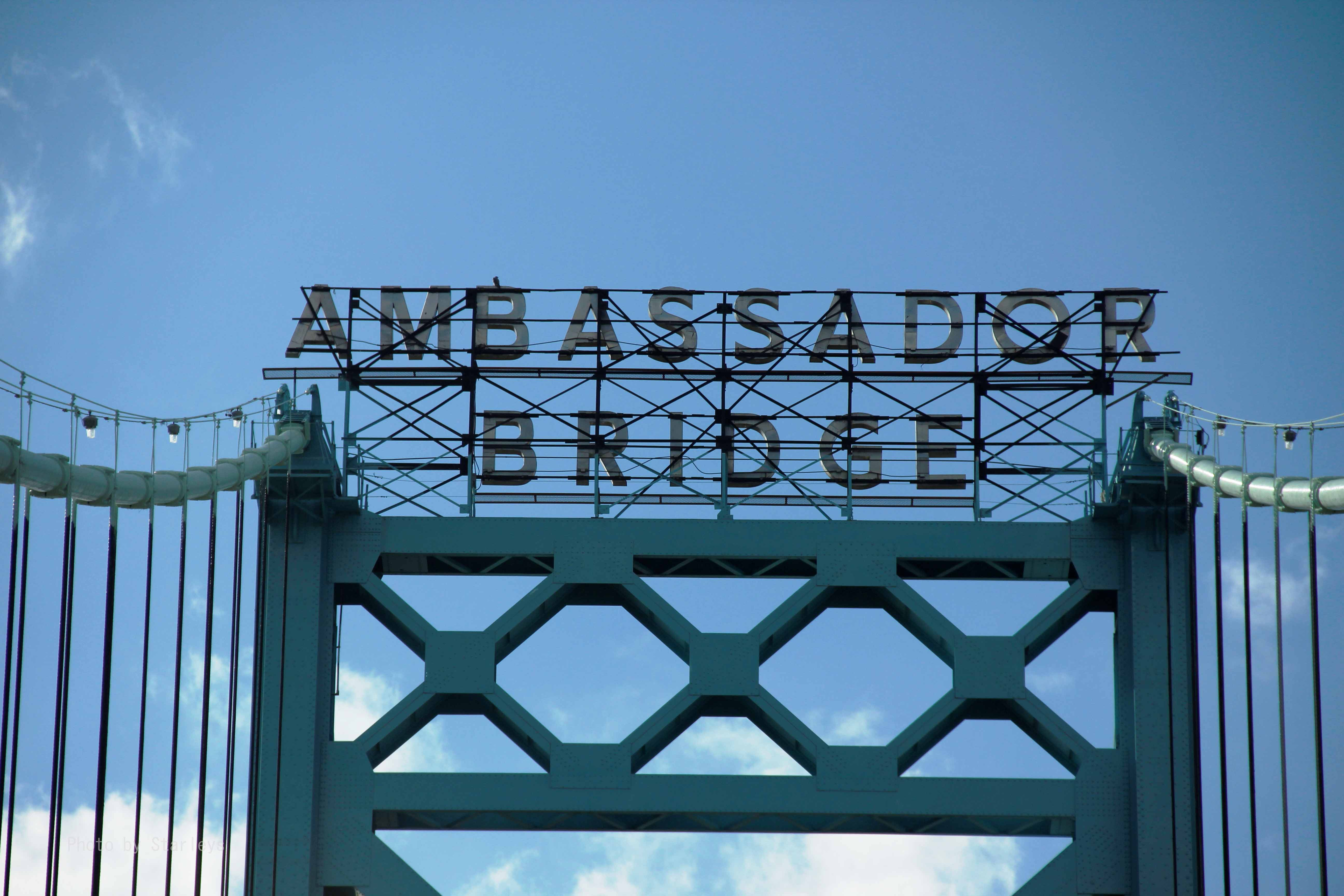 The Ambassador Bridge is a suspension bridge that connects Detroit, Michigan, in the United States, with Windsor, Ontario, in Canada